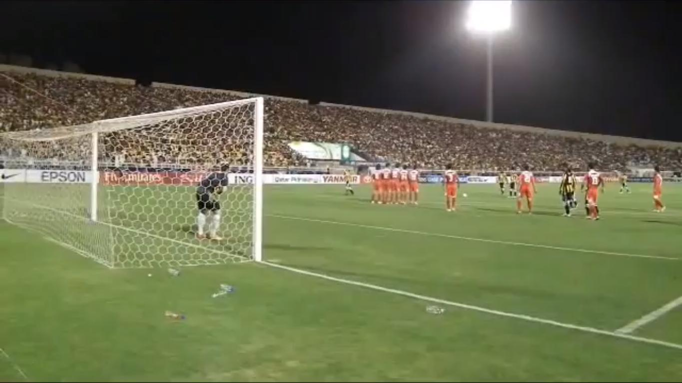 This shows a freekick for Al-Ittihad against Persepolis in the 2012 AFC Champions League round of 16.